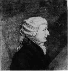 Drawing of George Cranstoun, Lord Corehouse by Robert Scott Moncrieff